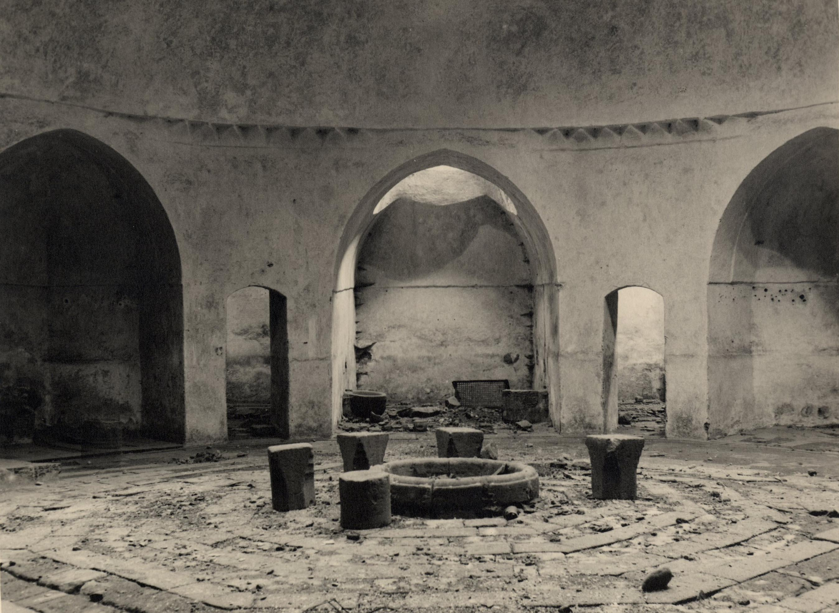 Diyarbakır Deva Hammam interiors SALT Research, Ali Saim Ülgen Archive Diyarbakır Deva Hamamı iç mekânı SALT Araştırma, Ali Saim Ülgen Arşivi